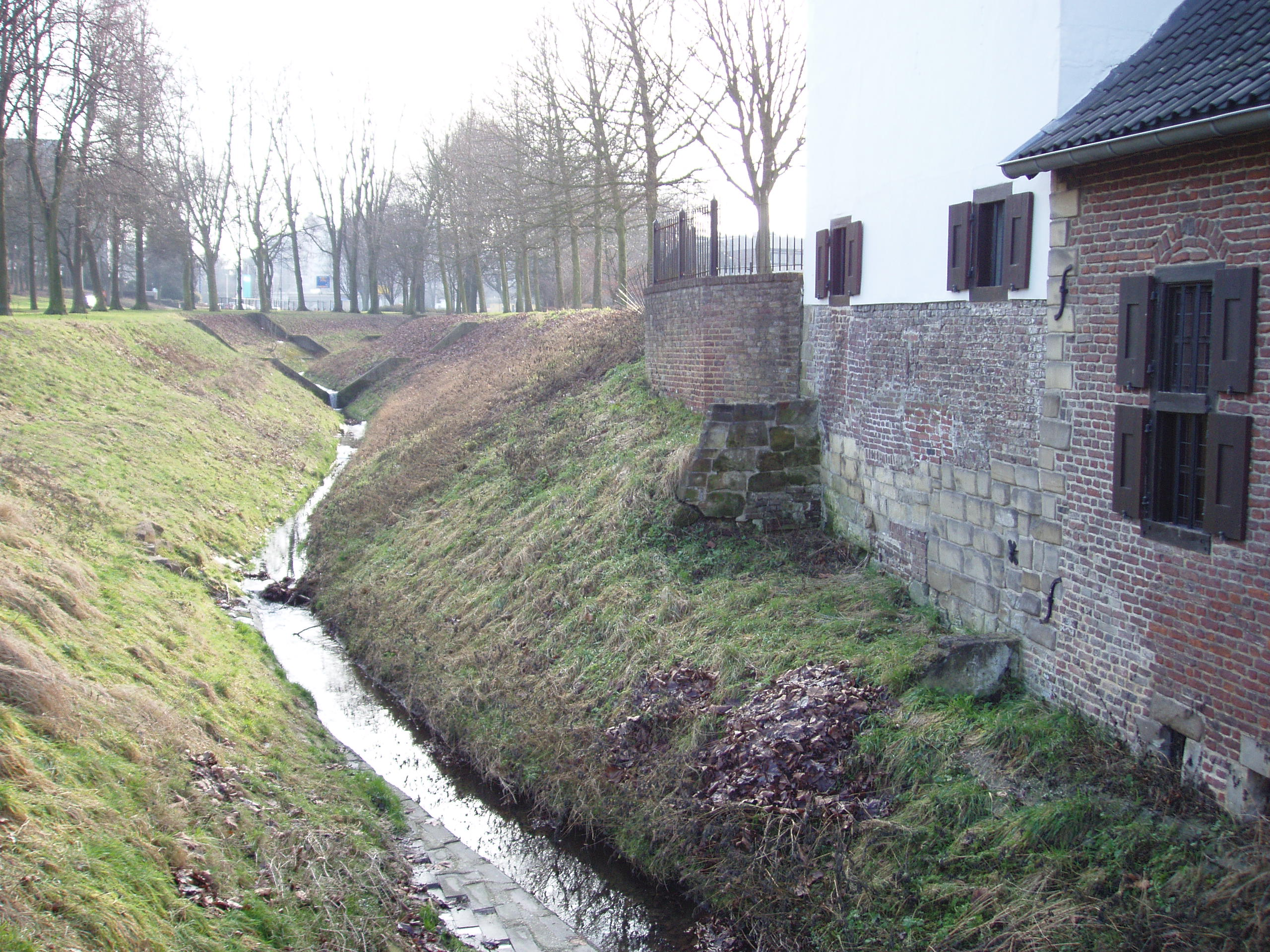 Watermill Schandelermolen, Heerlen, Limburg, Netherlands